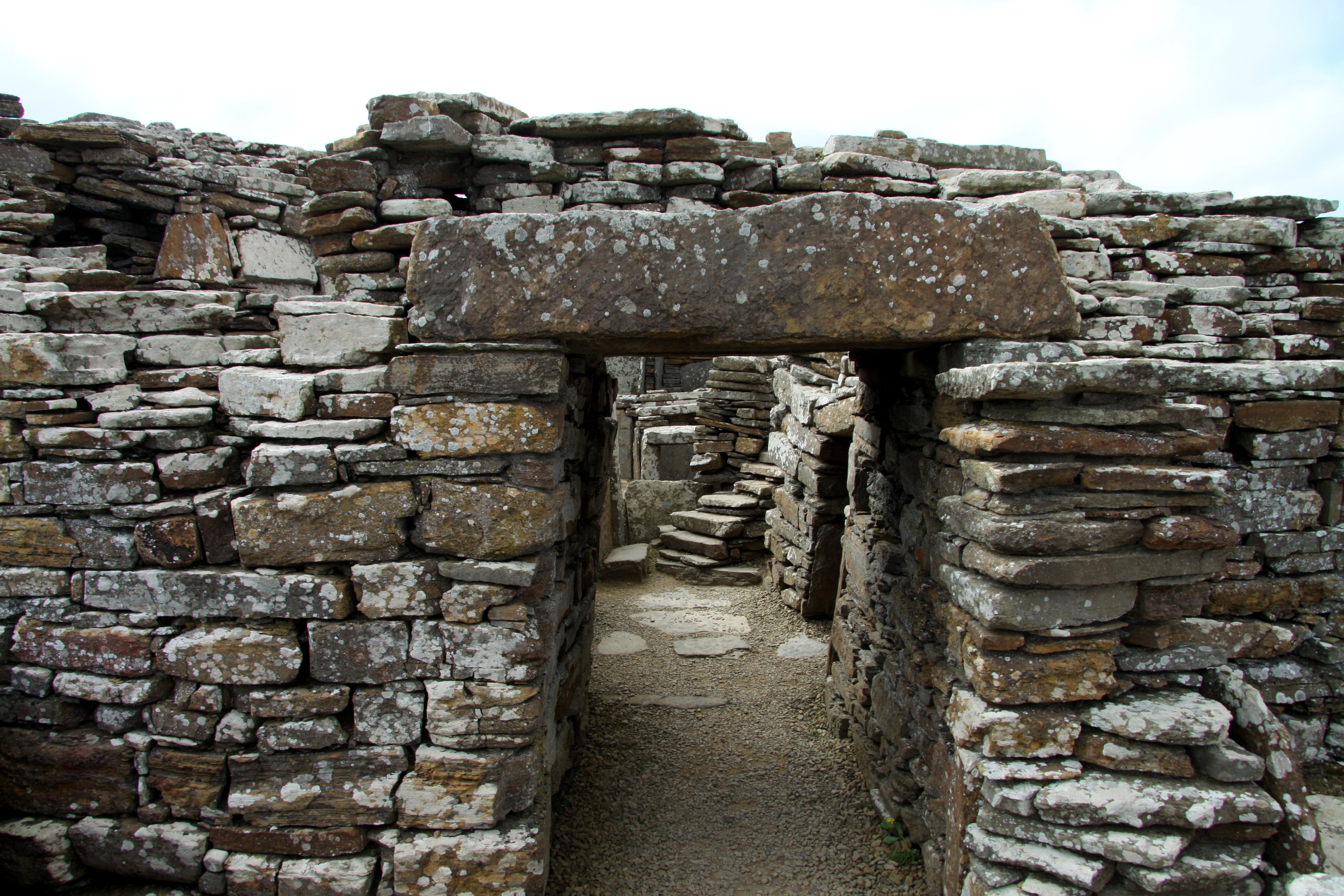 he Broch of Gurness is an Iron Age broch village on the northwest coast of Mainland Orkney in Scotland overlooking Eynhallow Sound.